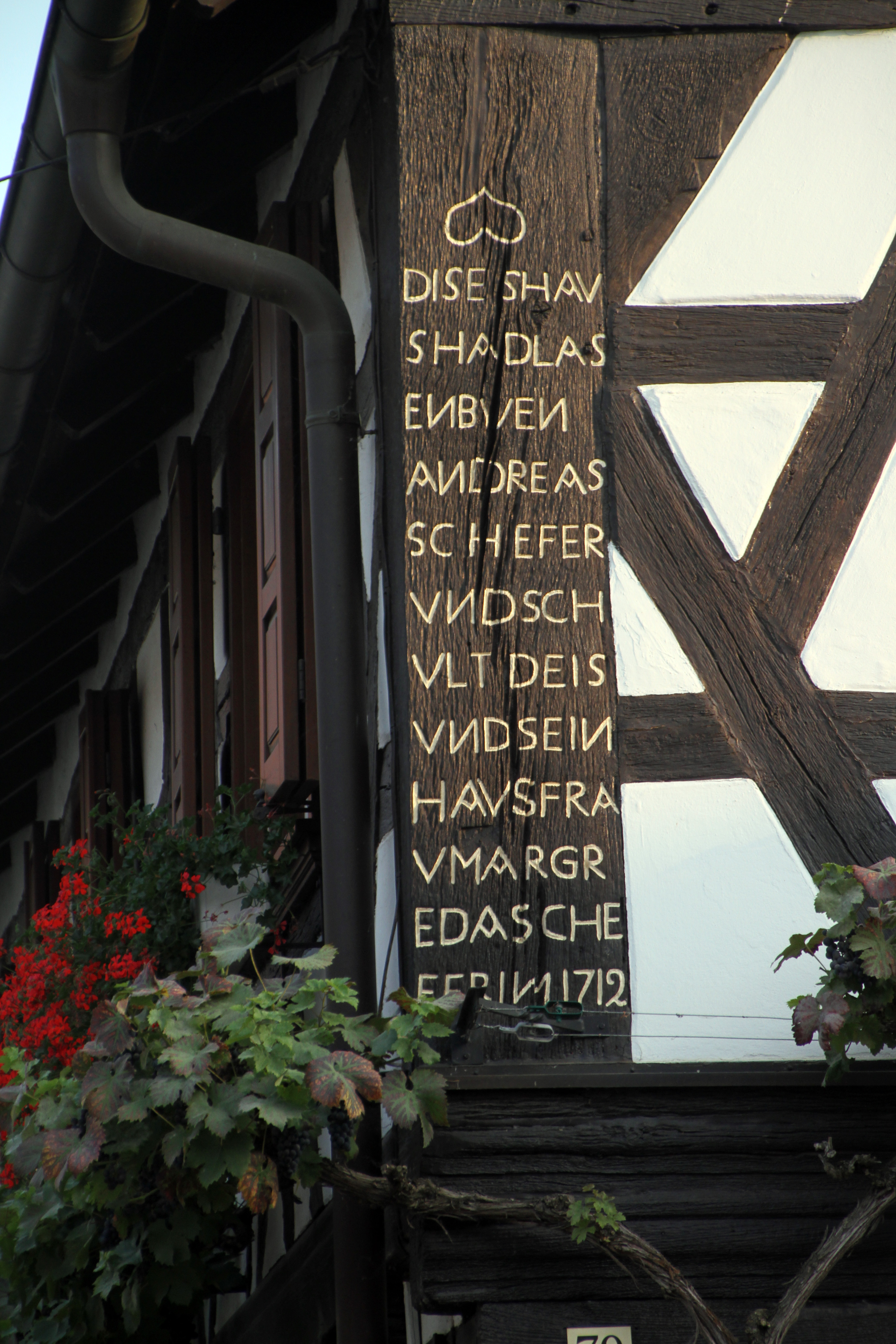 Cultural heritage monument in Schwegenheim